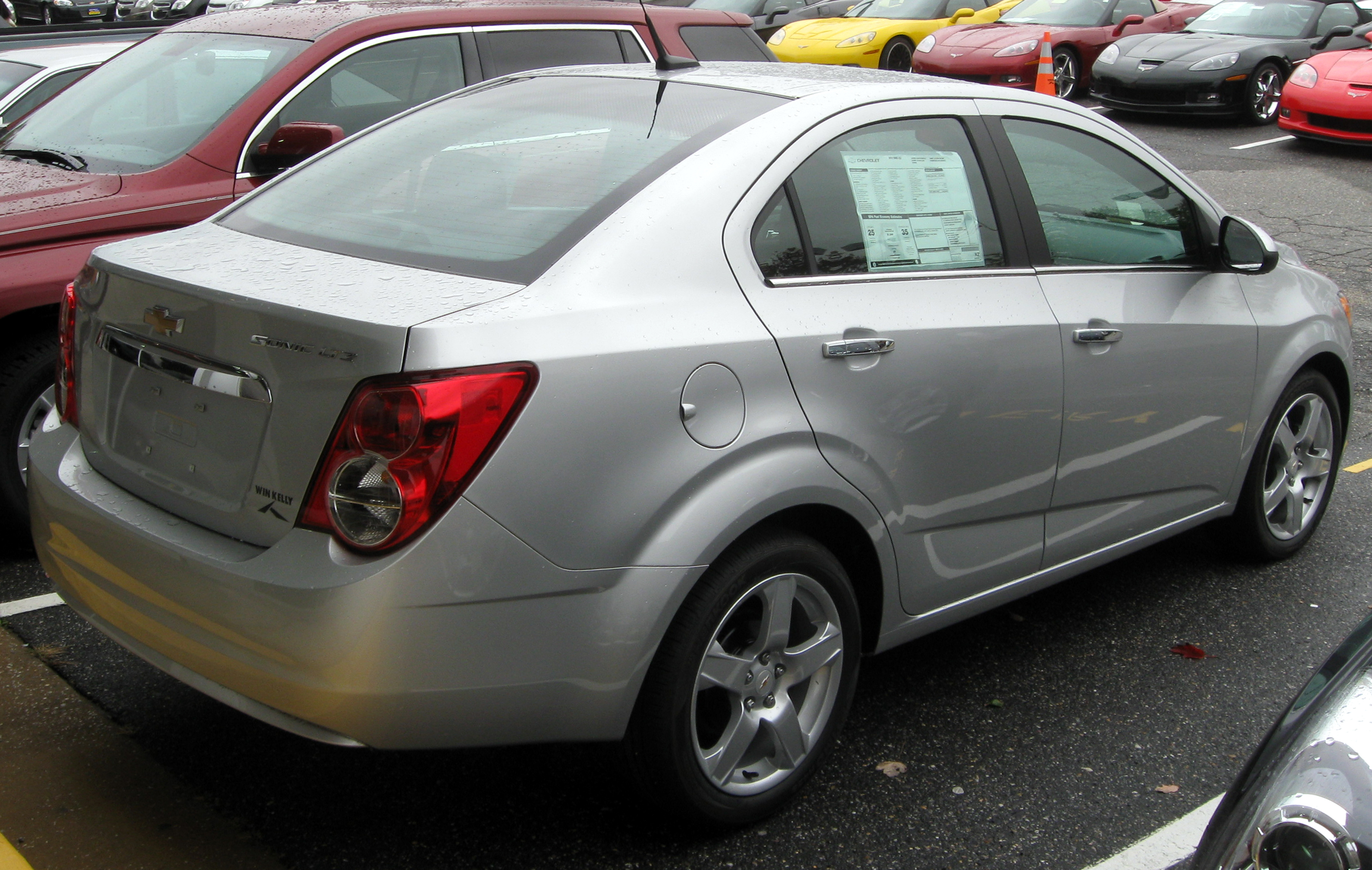 2012 Chevrolet Sonic photographed in Clarksville, Maryland, USA.